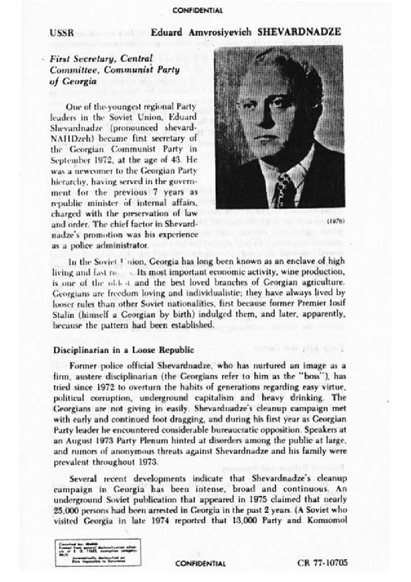 Document seized from the US Embassy in Tehran in 1979 by Iranian students